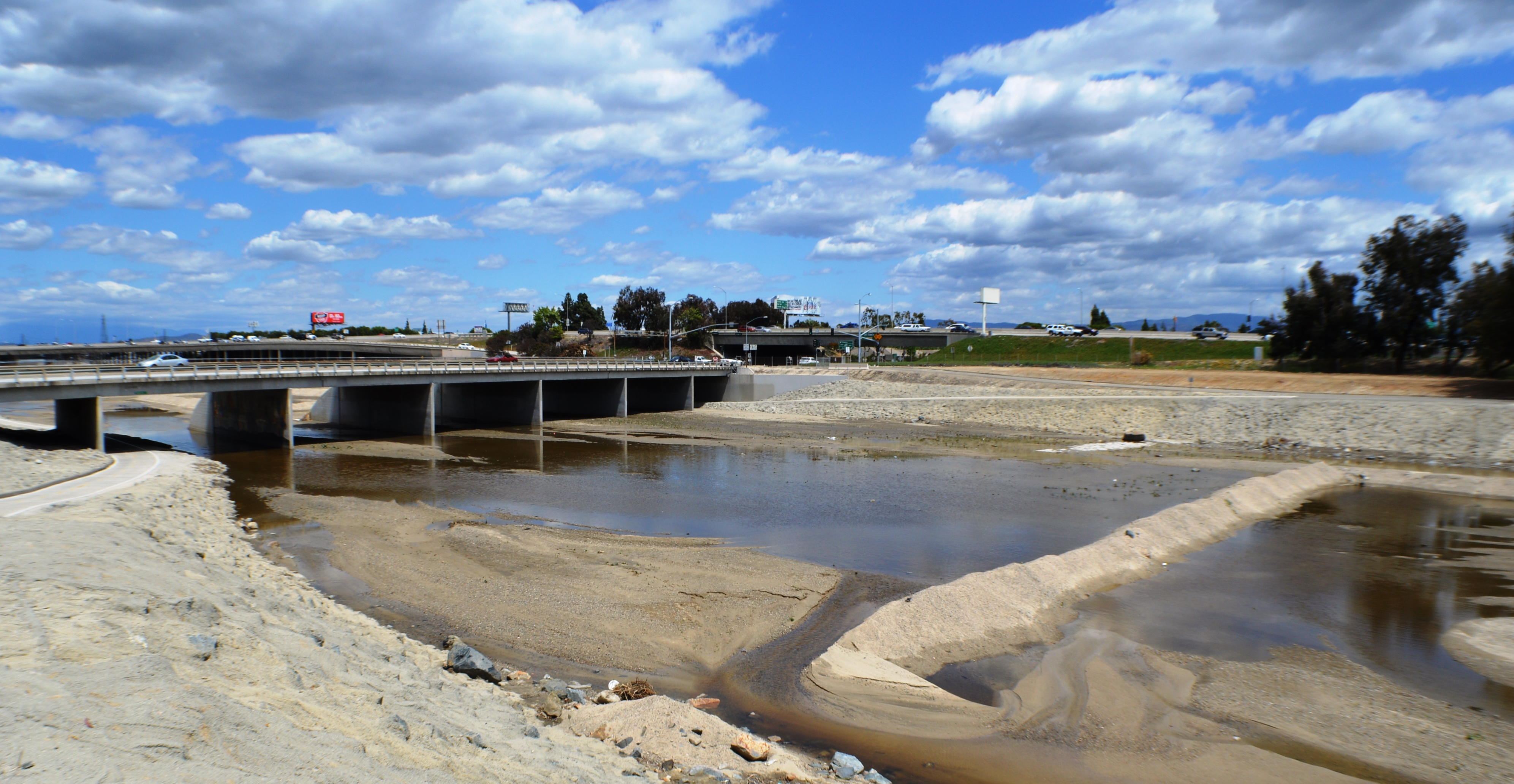 Santa Ana River, just south of the Orangewood Avenue bridge by the Orangewood Avenue entrance to SR-57 (Orange Freeway).